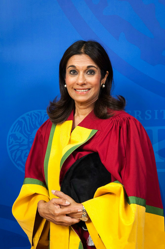 Pricess Sarvath El Hassan in 2015